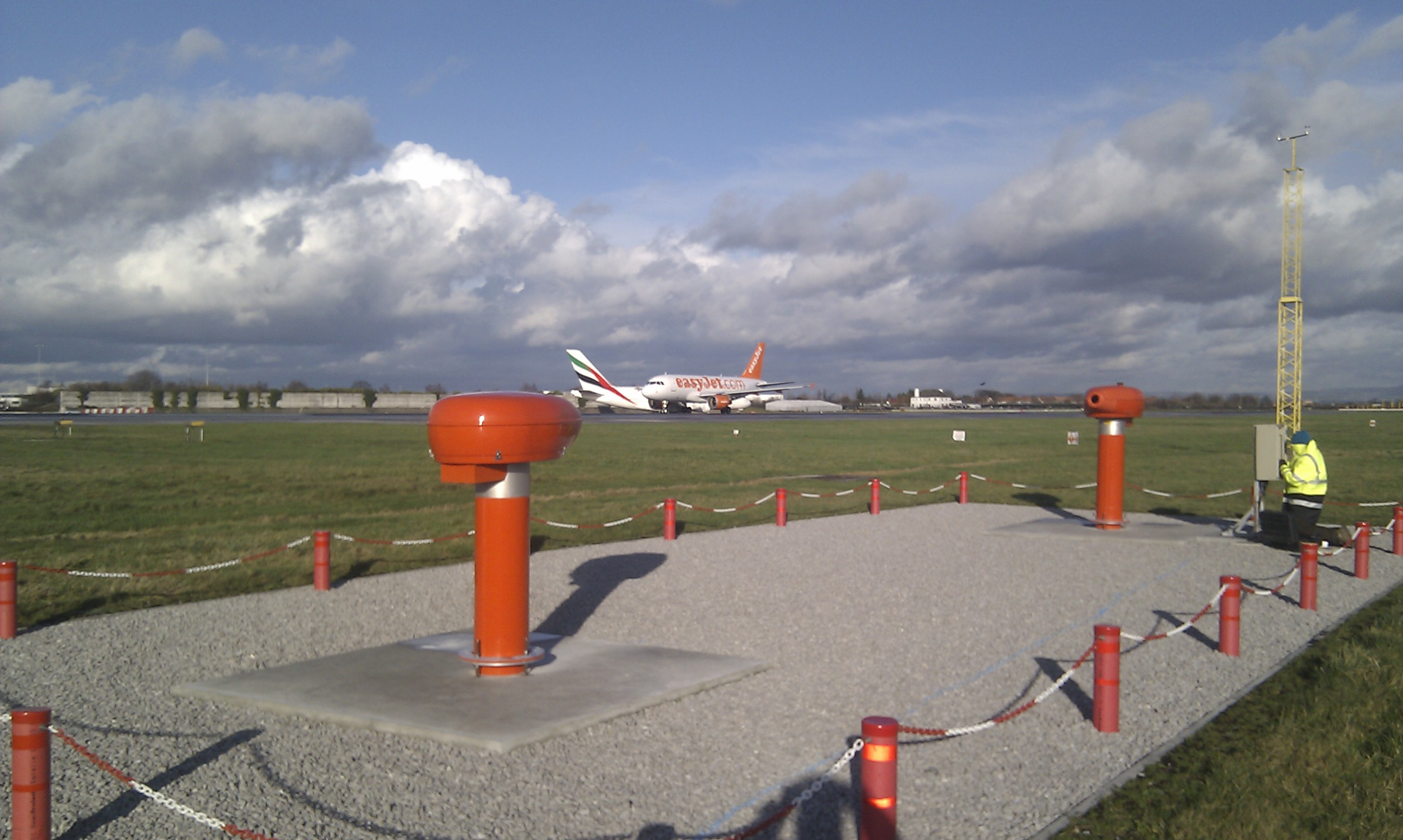 The Transmissometer and reflector are enclosed in specially designed housings. These are pressurised to prevent the ingress of wind driven precipitation, dust and foreign bodies.